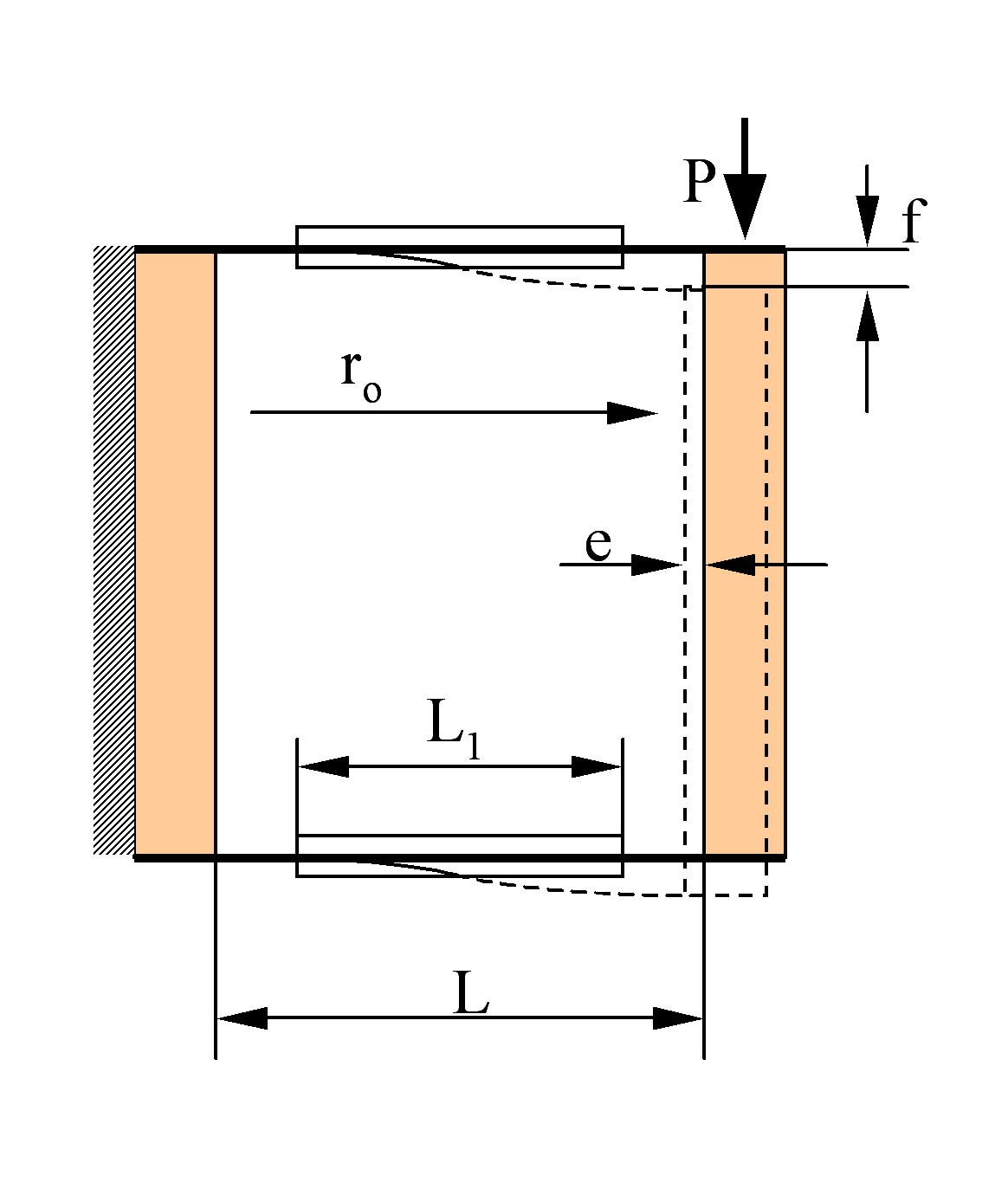 Parallel linear spring guide